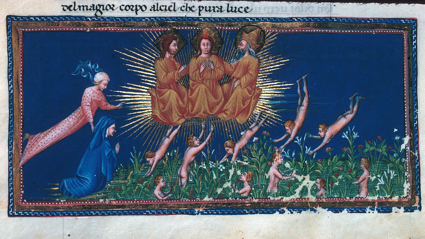 Dante_and_Beatrice_kneeling_before_the_Holy_Trinity